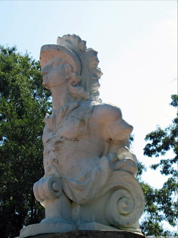 Figurehead of HMS Macedonian, now a monument at the United States Naval Academy. Macedonian was defeated by United States 25 October 1812.